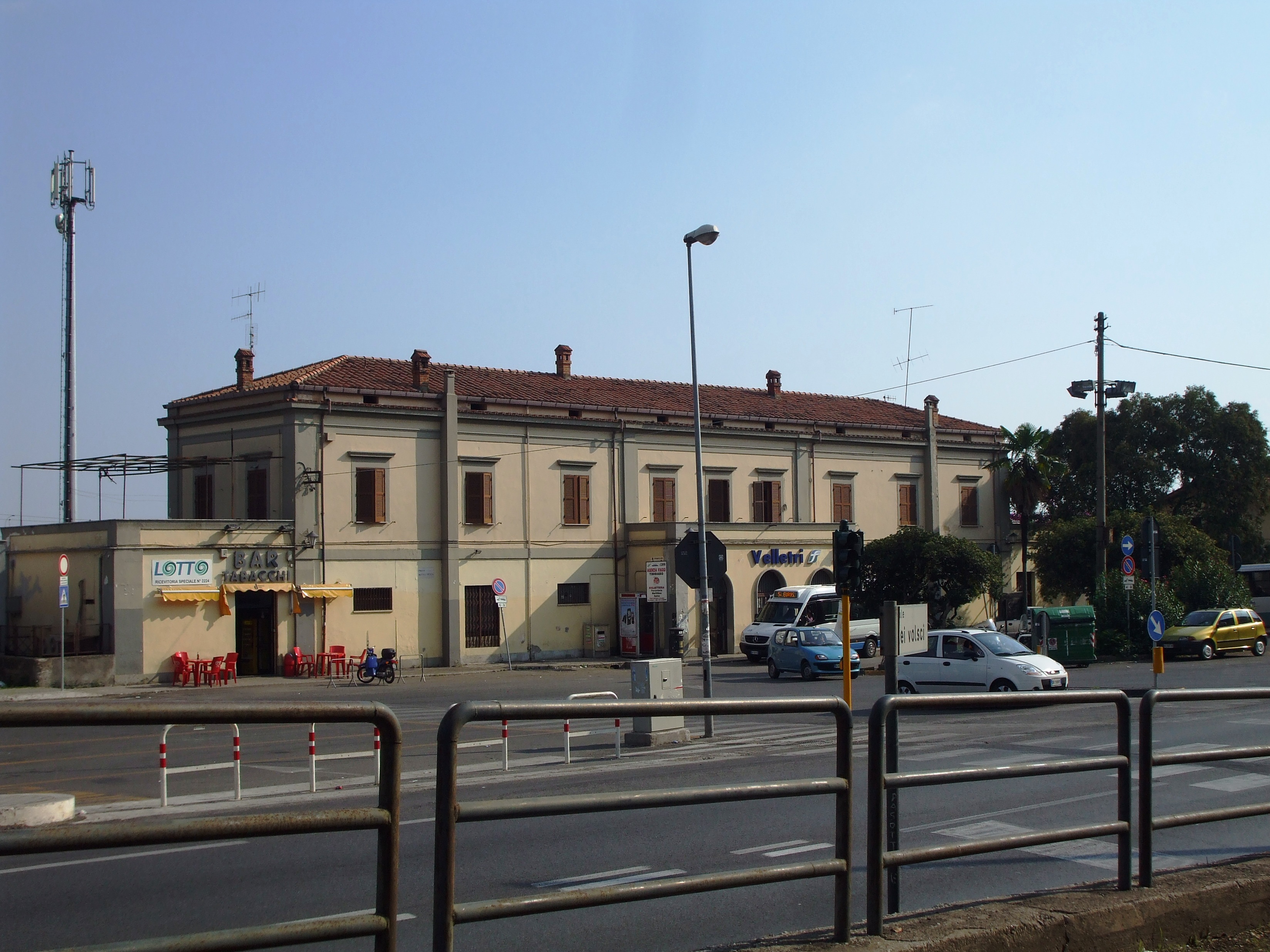 Velletri, the rail station